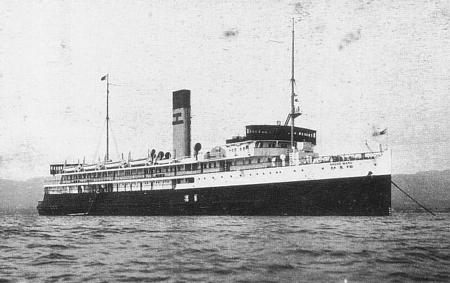 Seikan Ferry Shoho-maru